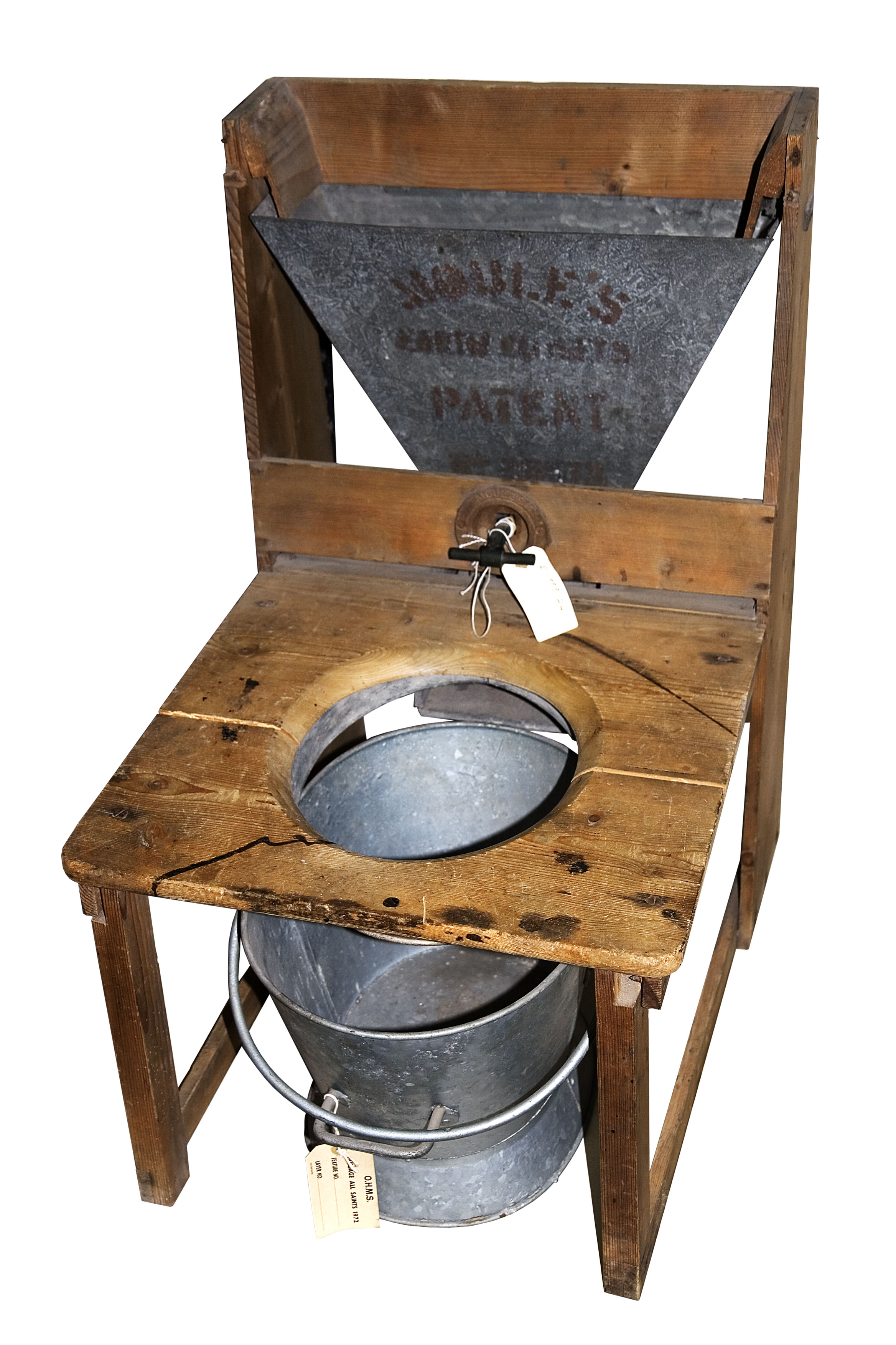 Henry Moule's earth closet, improved version c1875